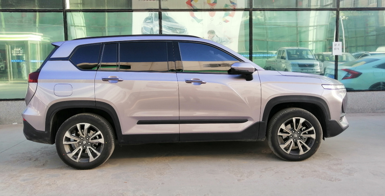 Baojun RS-5 photographed in Yinchuan, Ningxia autonomous region, China.